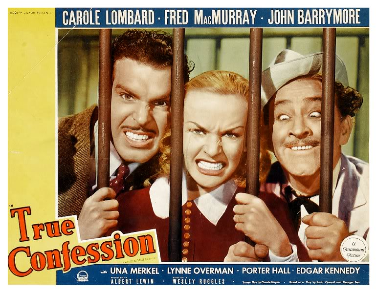 Lobby card for the film True Confession (1937).